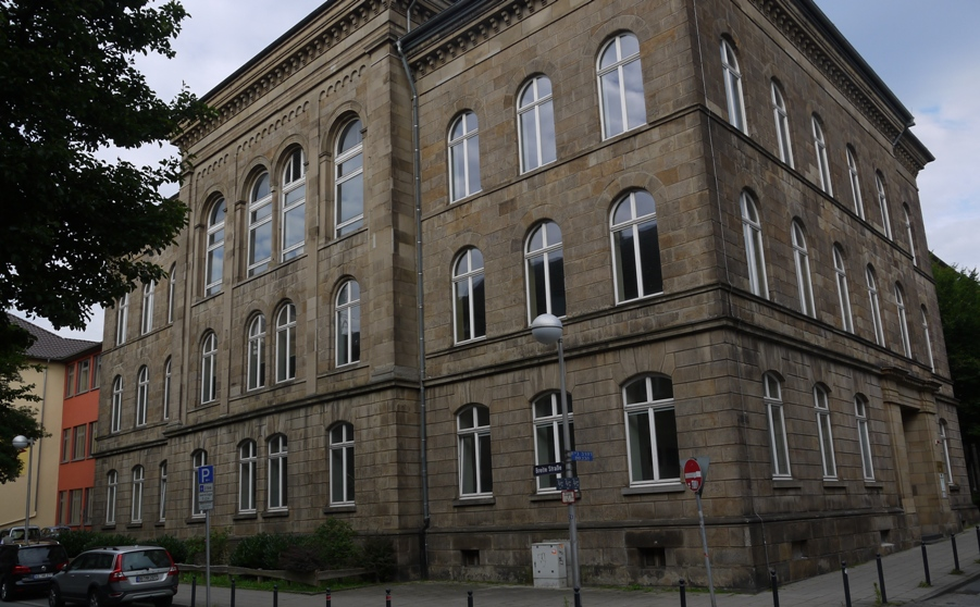 school Ruhr Gymnasium Witten